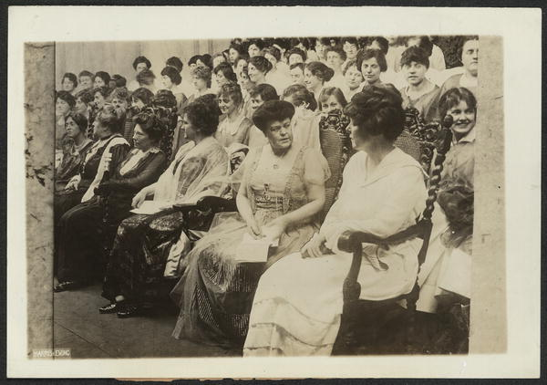 Women's Voter Convention, San Francisco, 1915. Alva Belmont seated second from right.